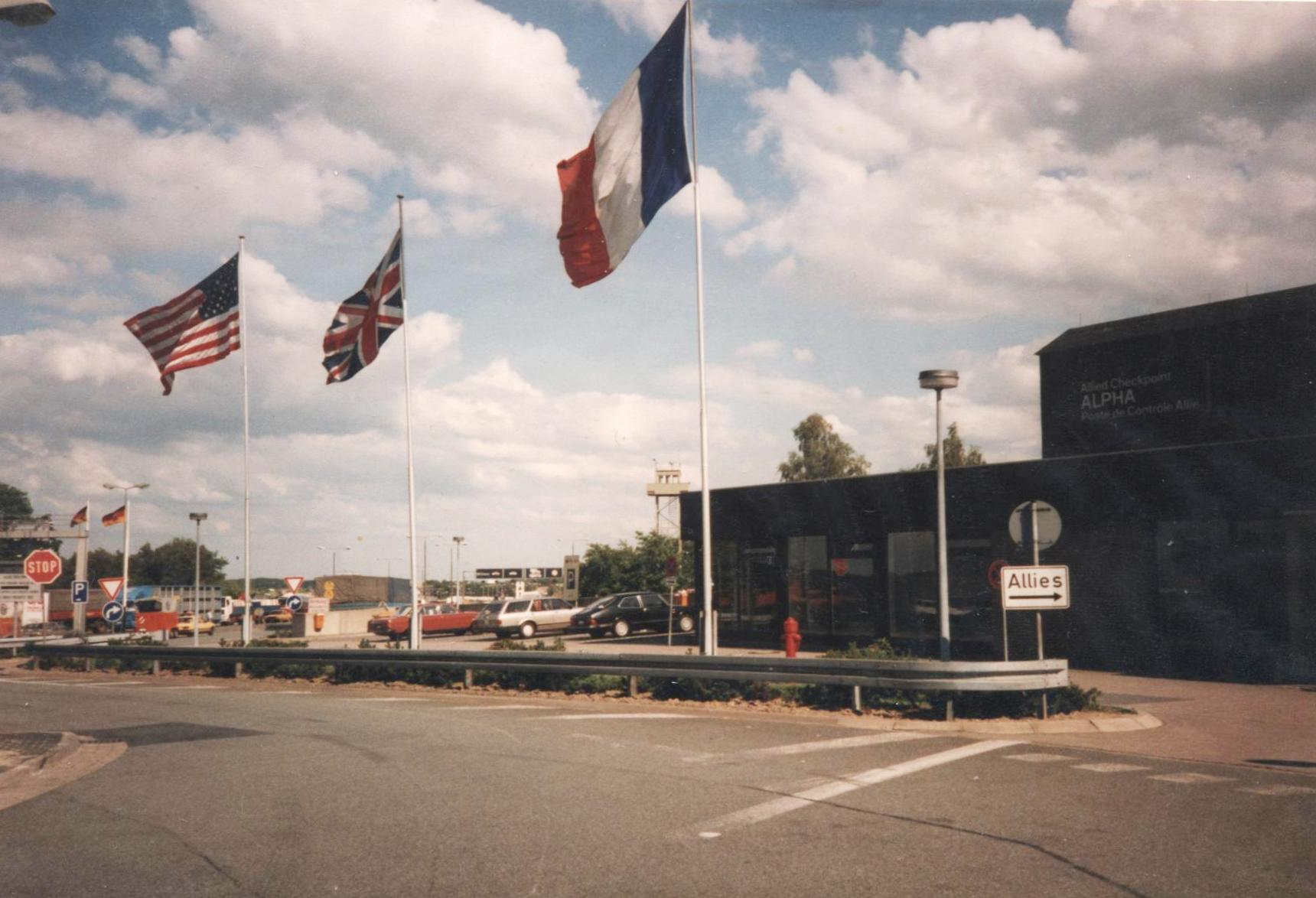 West-allied Checkpoint SIERRA Alpha as a part of the checkpoint Helmstedt in April 1990